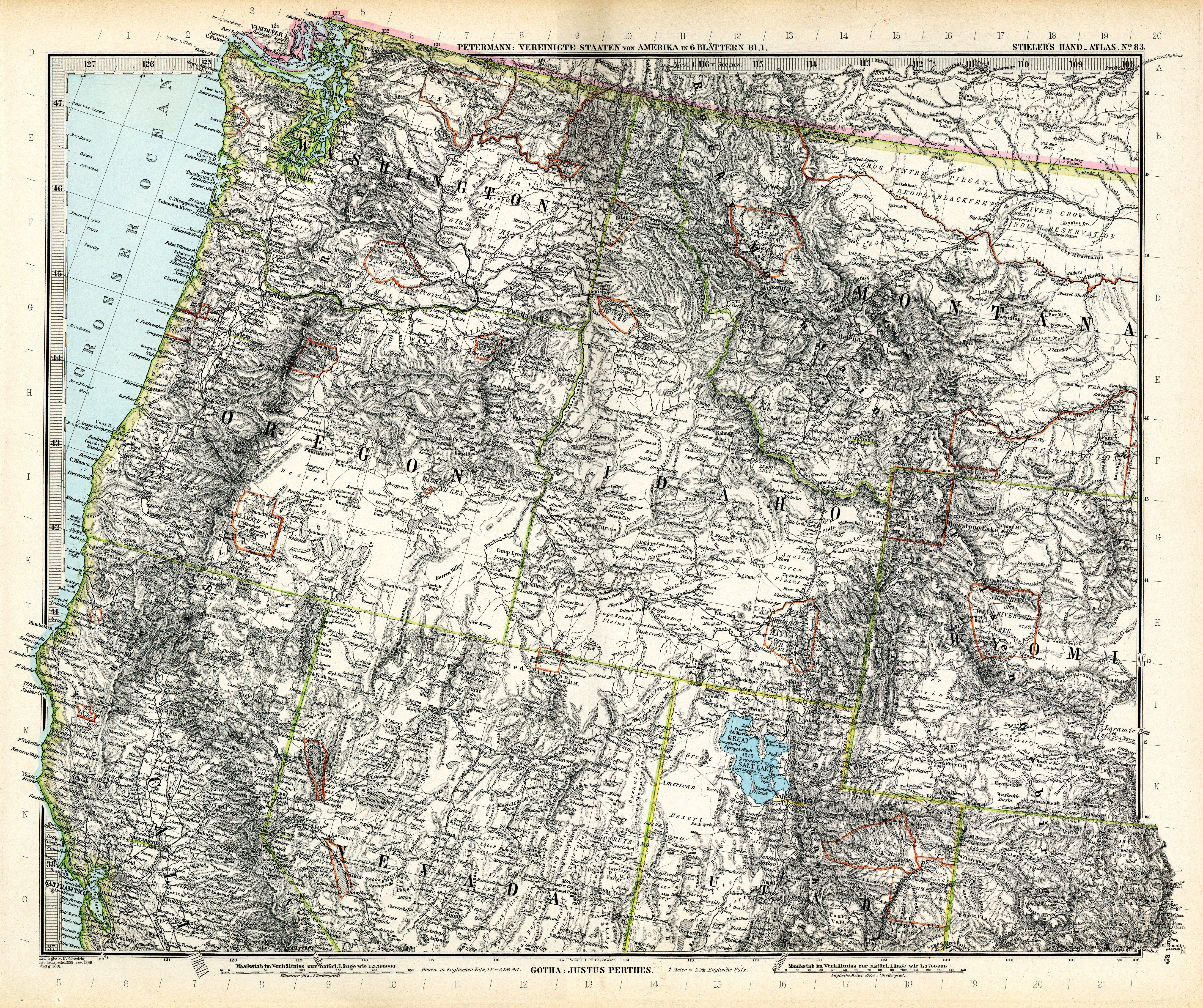 The United States of America in 6 sheets, sheet 1